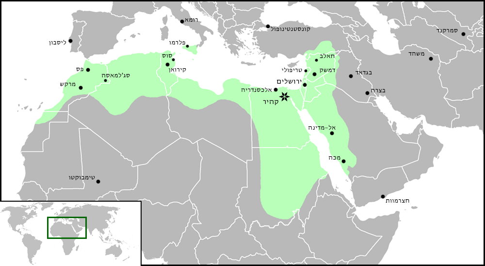 Map of Fatimid Caliphate. Based on File:Fatimid Islamic Caliphate.png